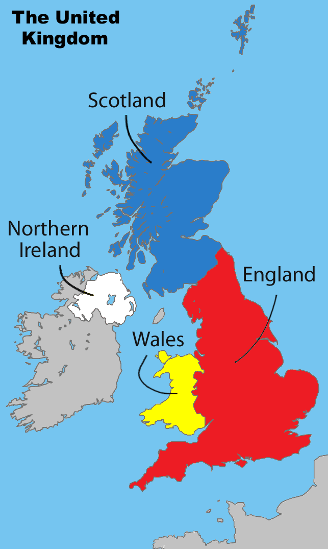 Image of the Home Nations